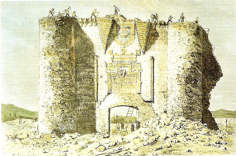 Engraving of the destruction of the Castle of the Marquises of Astorga in the 19th century.